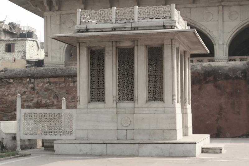 Mazar of Mirza Ghalib Mirza Ghalib (Urdu: مرزا غالب; Hindi: मिर्ज़ा ग़ालिब) born Mirza Asadullah Baig Khan (Urdu/Persian: مرزا اسد اللہ بیگ خان), on 27 December 1797 – died 15 February 1869),[1] was a classical Urdu and Persian poet from Mughal Empire during British colonial rule. He used his pen-names of Ghalib He is buried in Nizammudin.His mazar is a protected monument.